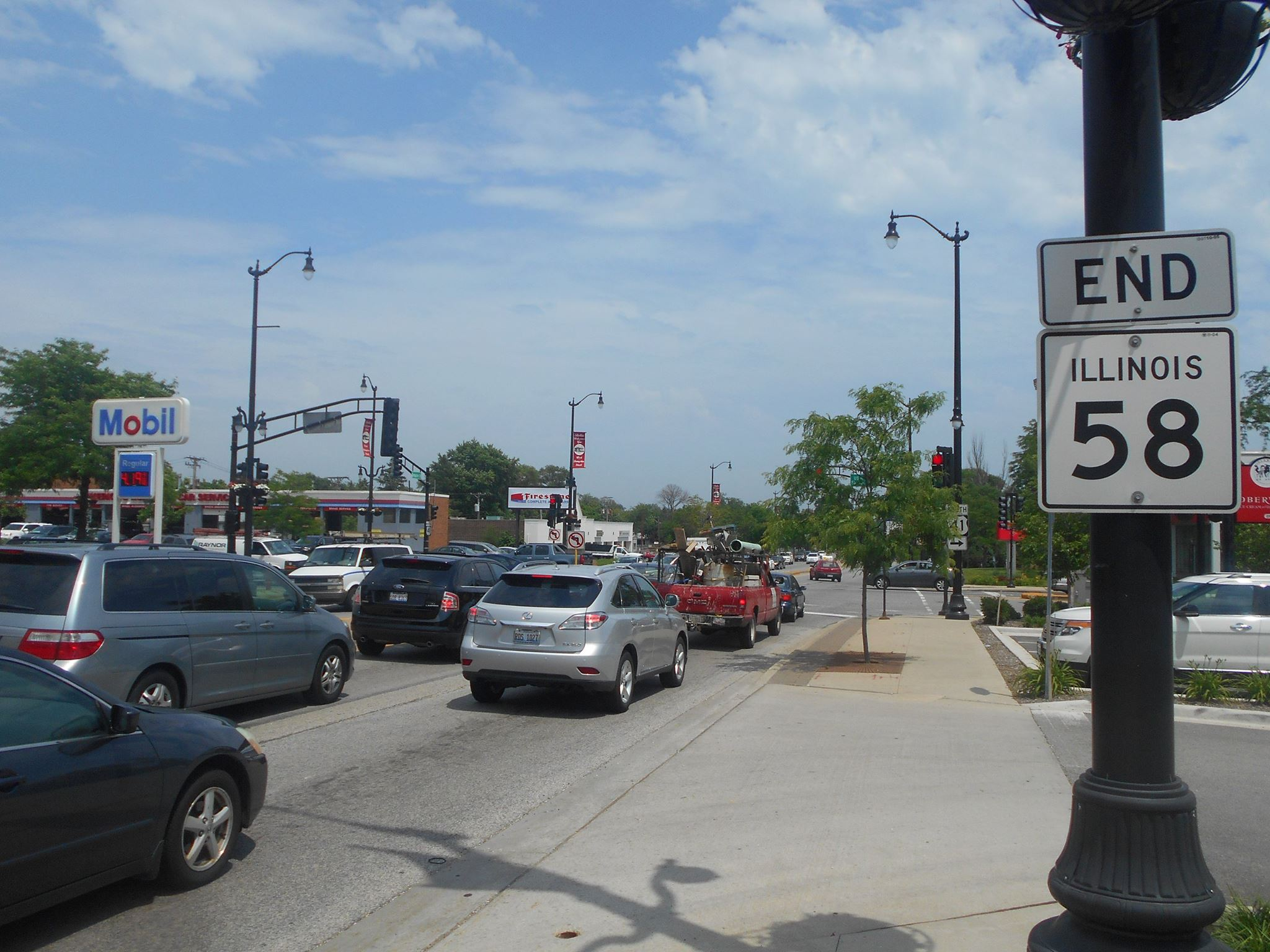 The eastern terminus of Illinois Route 58 in the city of Skokie, Illinois at U.S. Route 41.